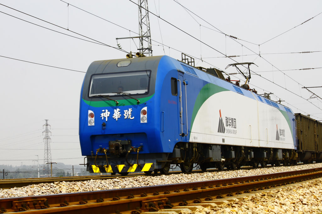 神华号HXD17004